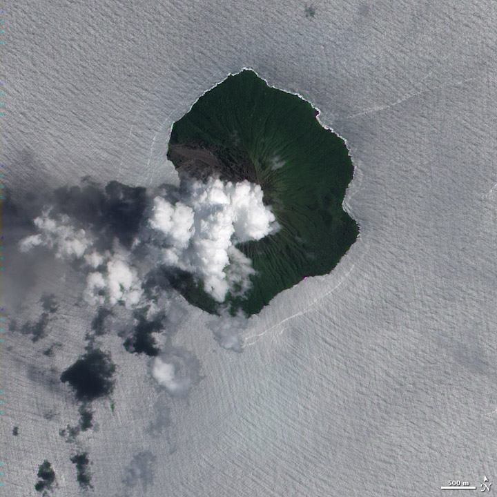 To download the full resolution and other files go to: Tinakula is a small, volcanic, South Pacific island located about 2,300 kilometers (1,400 miles) northeast of Brisbane, Australia. This natural-color satellite image shows a plume of volcanic gas, possibly mixed with a little ash, rising above the island’s summit. Over the past decade satellites have detected intermittent “thermal anomalies” that suggest eruptions have taken place, but eyewitness observations are infrequent. NASA image by Jesse Allen and Robert Simmon (Earth Observatory), using EO-1 ALI data. Caption by Robert Simmon. The Earth Observatory's mission is to share with the public the images, stories, and discoveries about climate and the environment that emerge from NASA research, including its satellite missions, in-the-field research, and climate models. Like us on Facebook Follow us on Twitter Add us to your circles on Google+